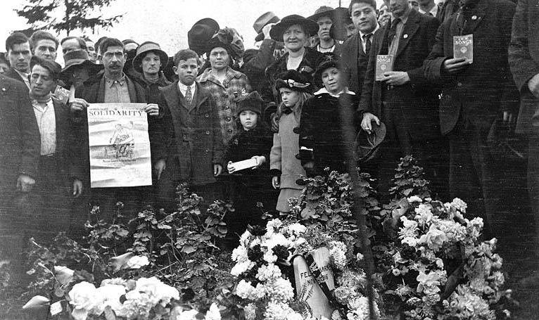 Funeral of Felix Baran, held in Seattle, Washington, November 1916, by members of the Industrial Workers of the World. (Everett Massacre, Everett, Wash.)